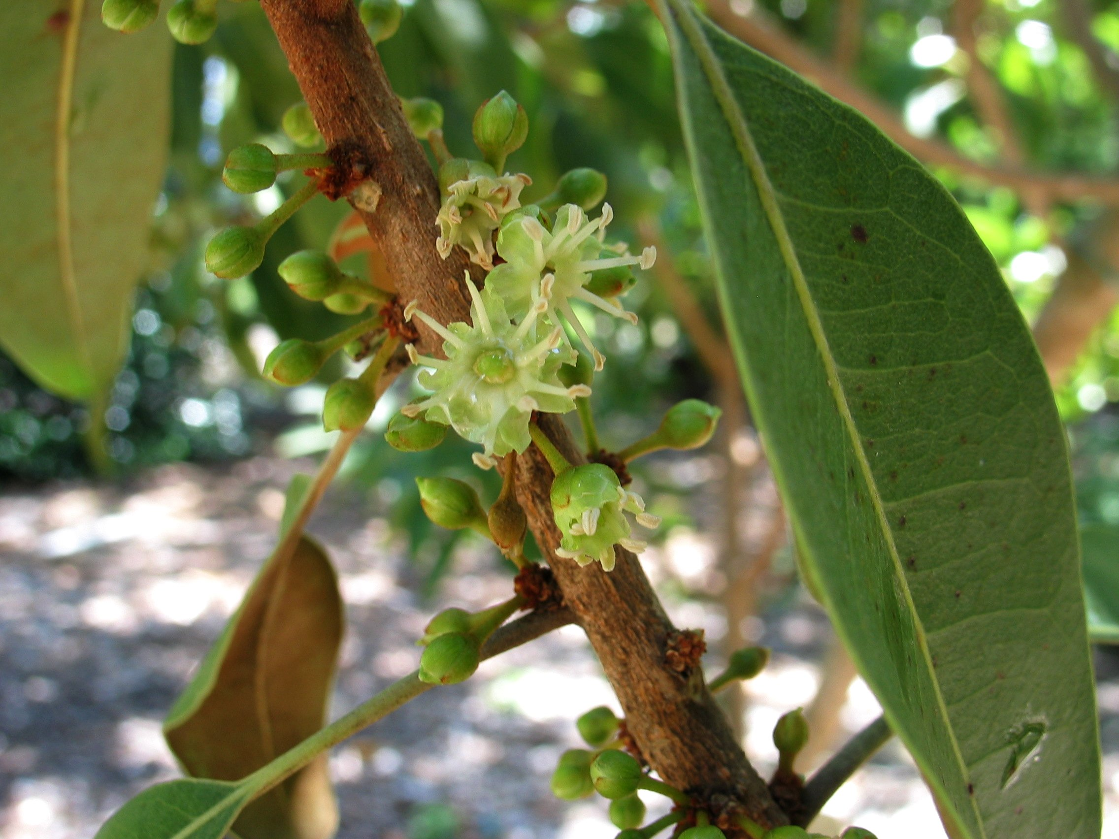 [syn. Nesoluma polynesicum] Keahi, Hawaiian nesoluma, or Island nesoluma Sapotaceae Indigenous to the Hawaiian Islands Uncommon to rare. Oʻahu (Cultivated) NPH00007